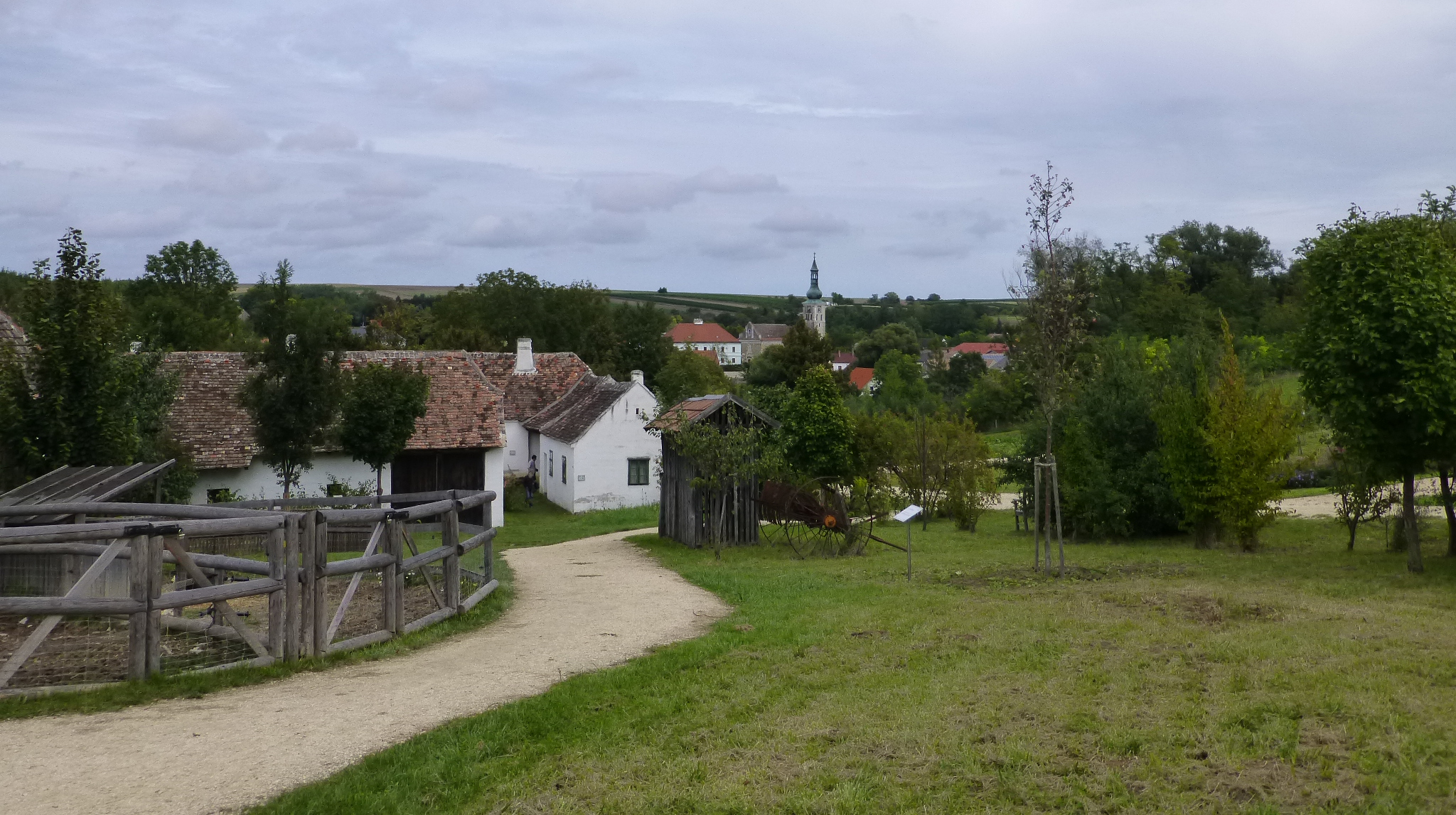 Niedersulz village seen from its open-air museum.